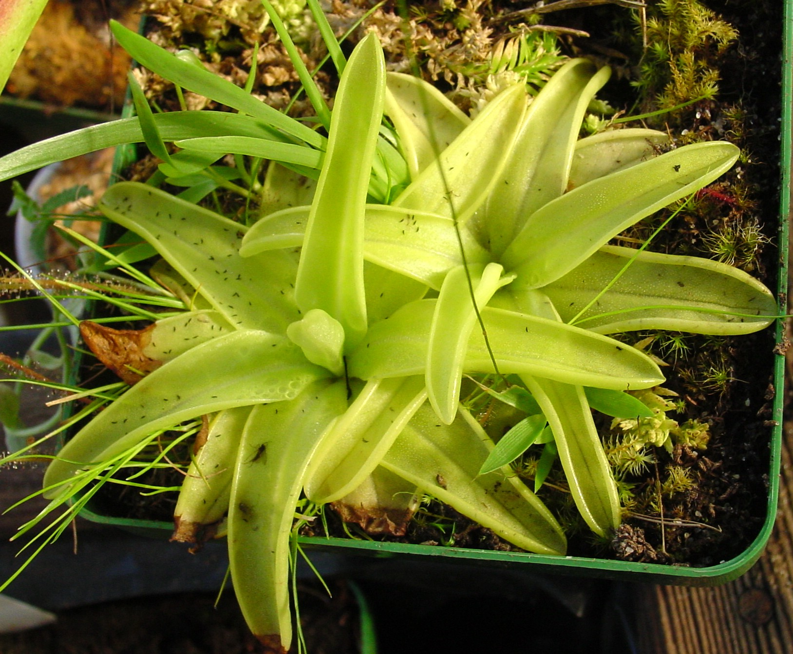 Description:Pinguicula lutea Photo taken by: Noah Elhardt